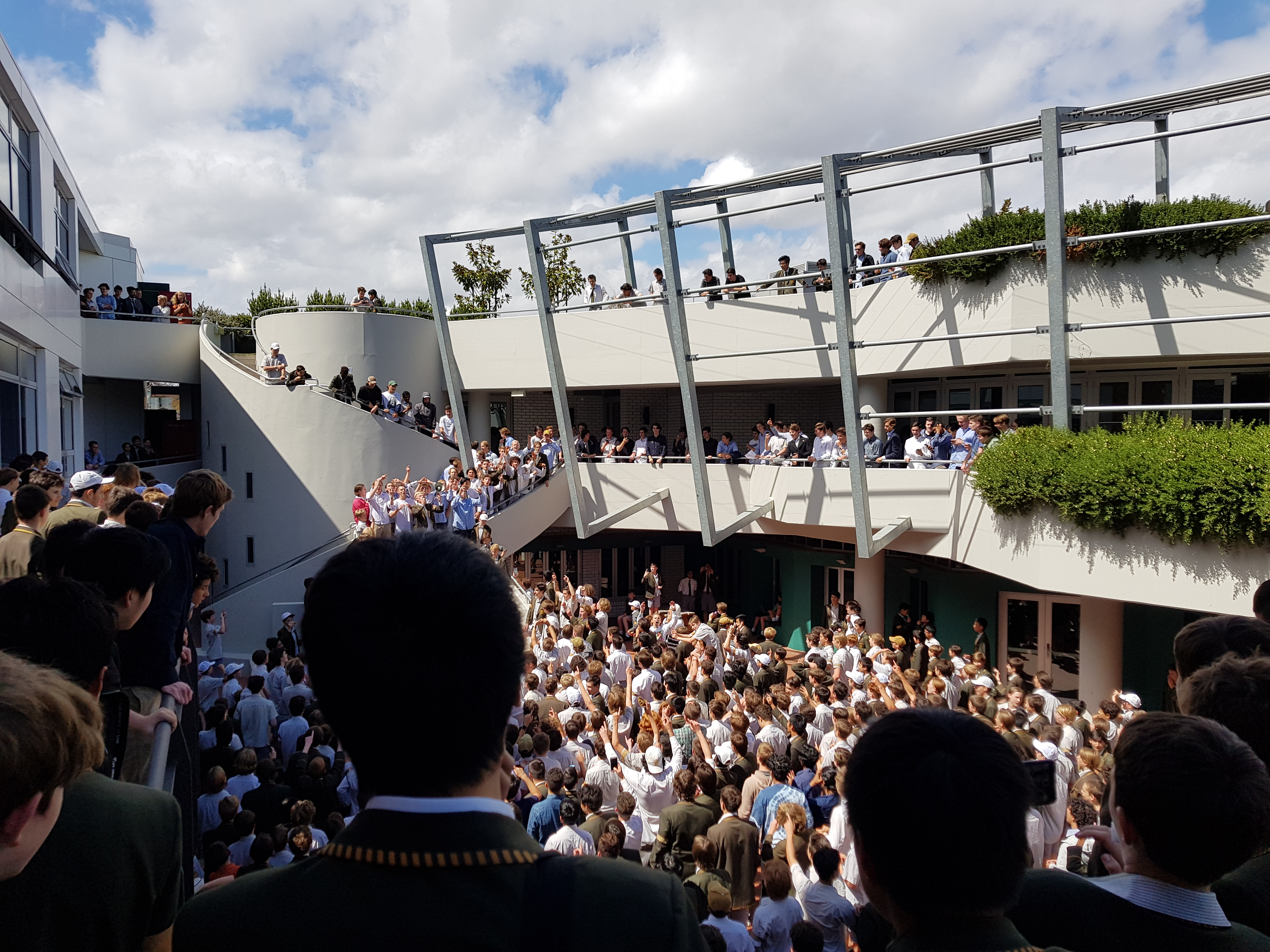 Student protests at Trinity Grammar following the removal of the deputy headmaster